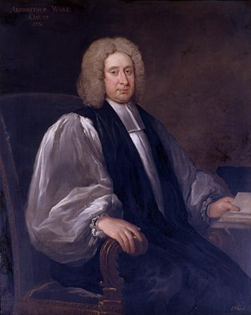 William Wake (1657-1737), Archbishop of Canterbury